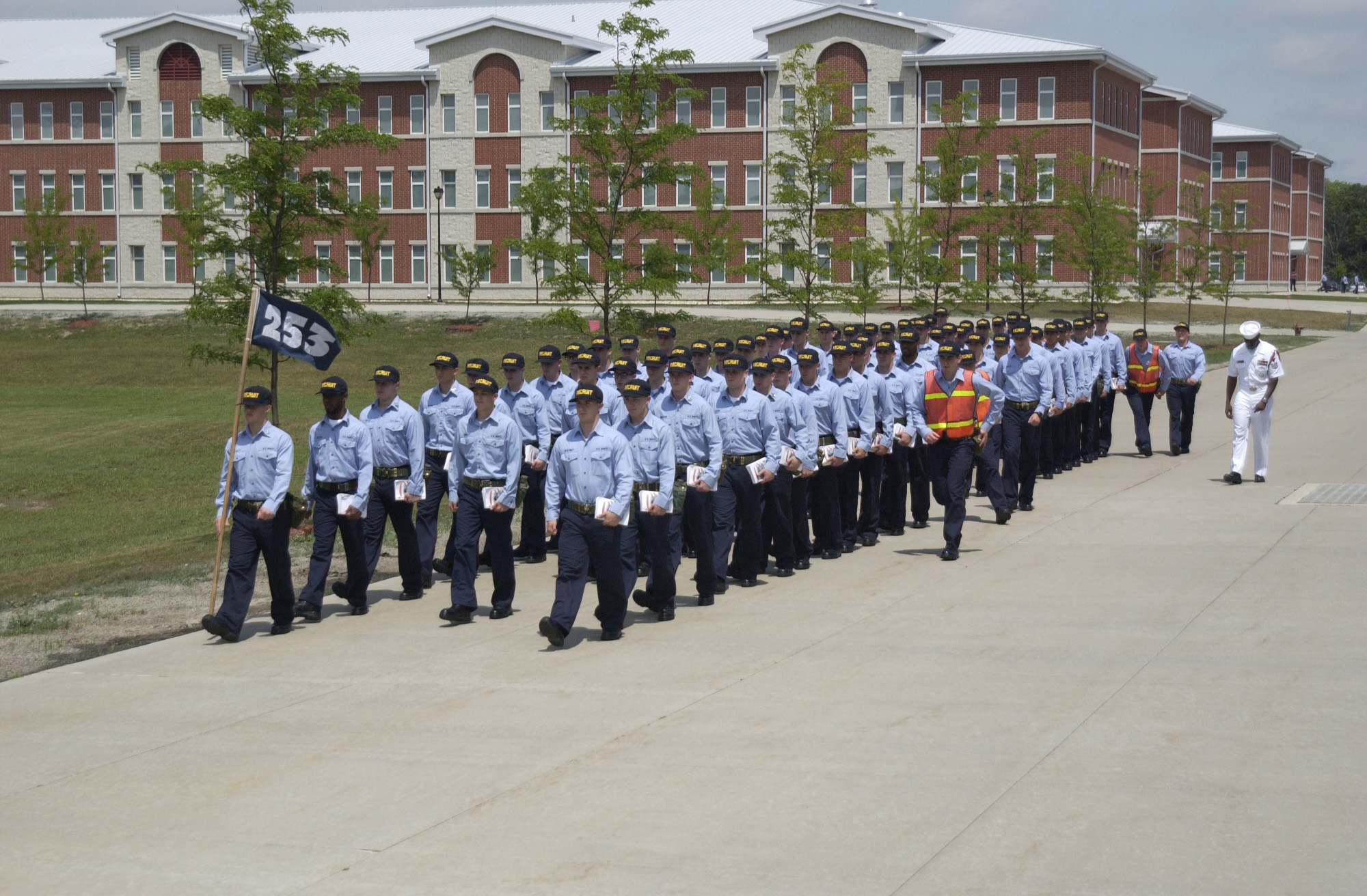 070814-N-8848T-002 NAVAL STATION GREAT LAKES, Ill. (Aug. 14, 2007) – Recruits from Division 253 march from their ship barracks, USS Chicago, at Recruit Training Command. DDivision 253 is the third Special Warfare Operations division to go through recruit training. The division is made up of rating candidates for special warfare operator, special warfare boat operator, Navy diver and explosive ordnance disposal (EOD). It is part of a new Navy and Special Warfare Command initiative to grow the ranks of SEALs, littoral and riverboat squadrons, dive units and EOD detachments. U.S. Navy photo by Mr. Scott A. Thornbloom (RELEASED)